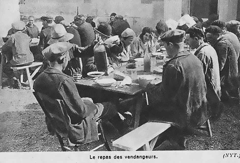 Grape harvesters' mealtime